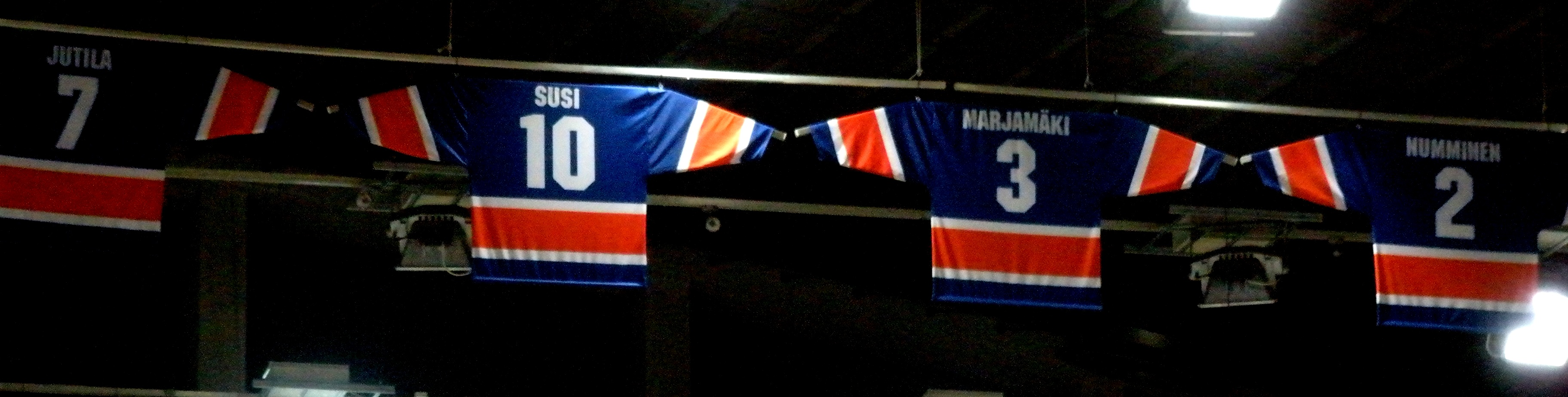 Retired numbers of Tappara